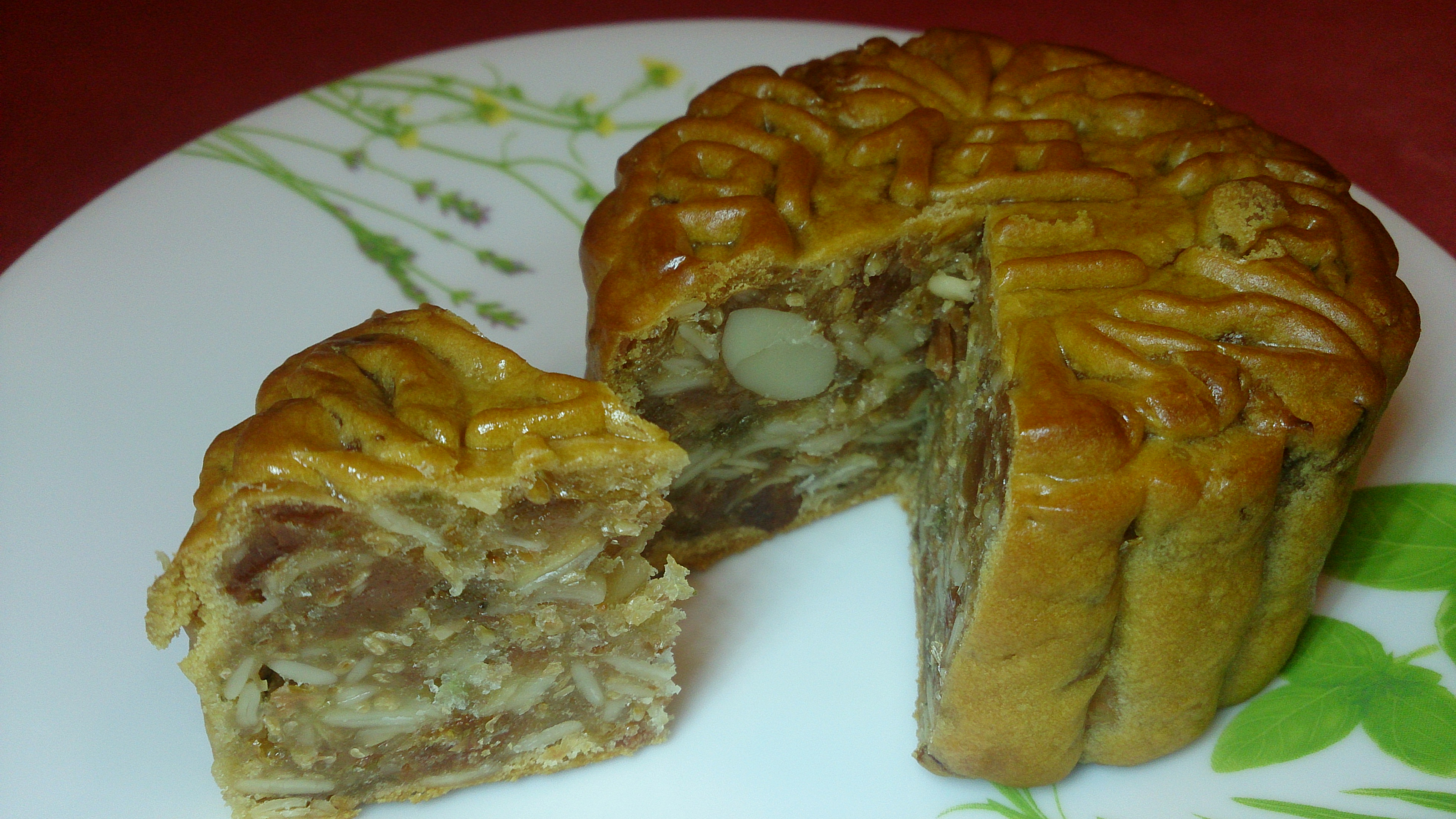 Mixed nuts mooncake